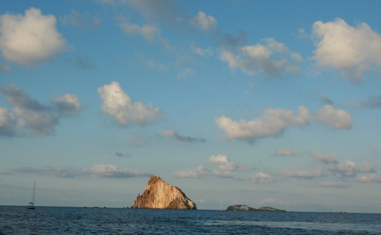 Islets Dattilo and Lisca Bianca, East of Panarea, Aeolian Islands, Italy